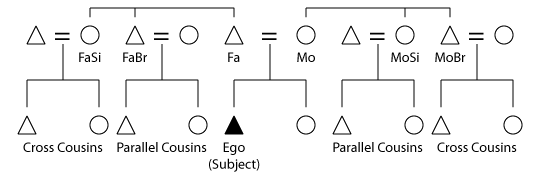 An anthropology chart showing the relations between family members.